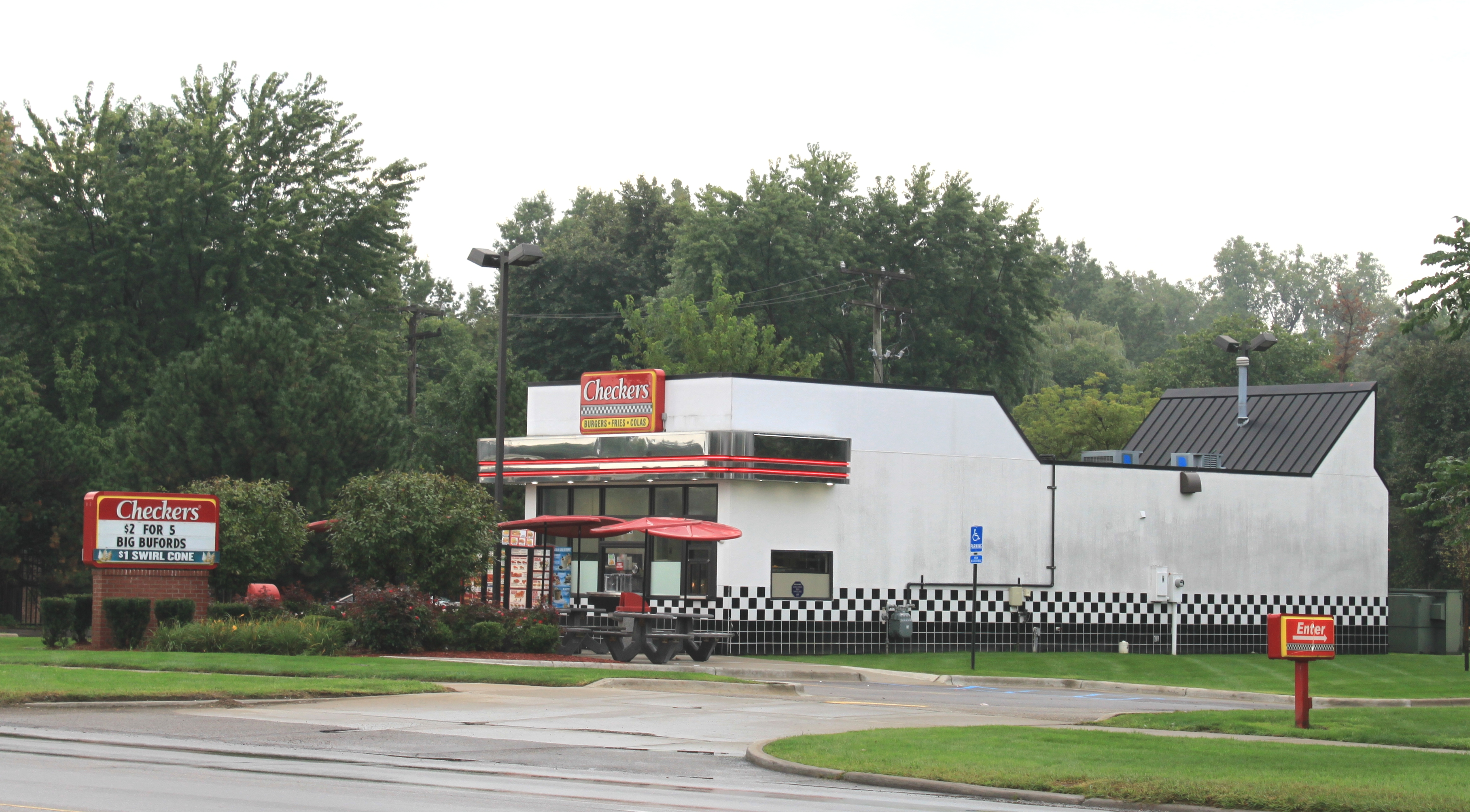 Checkers Drive-In Restaurant, 26715 Eureka Road, Taylor, Michigan